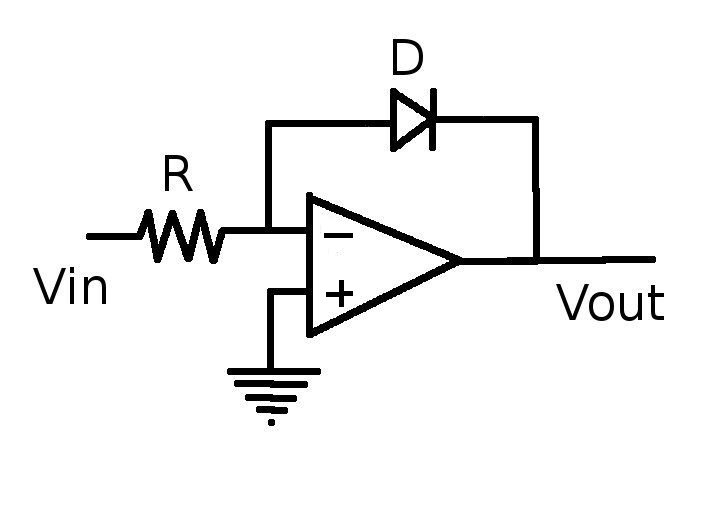 Operational amplifier logarithmic